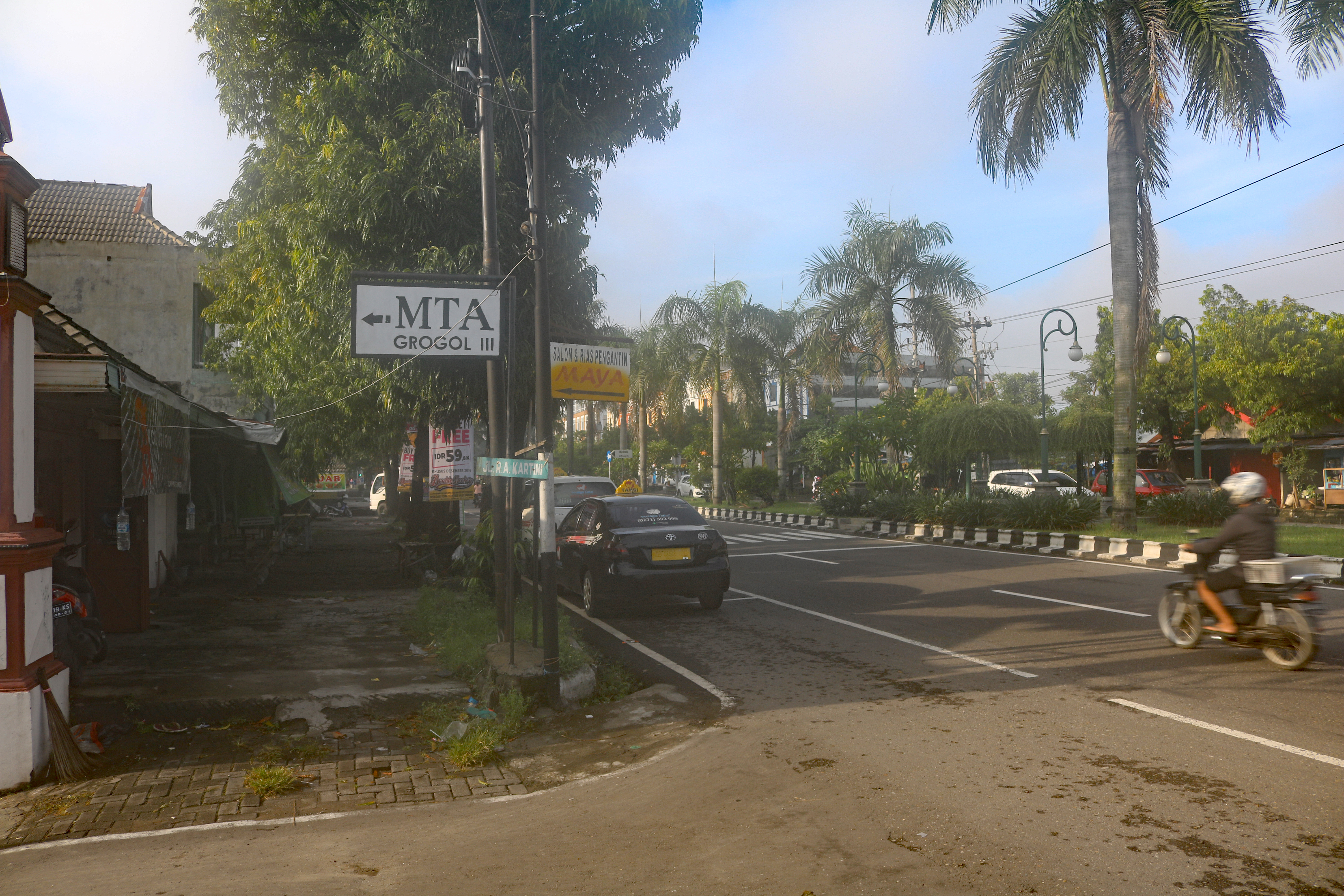 A view of Grogol, a subdistrict (kecamatan) in Sukoharjo Regency, Central Java, Indonesia.